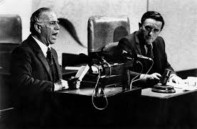 Tawfik Toubi in the Israeli Knesset (Parliament), here seen on the left